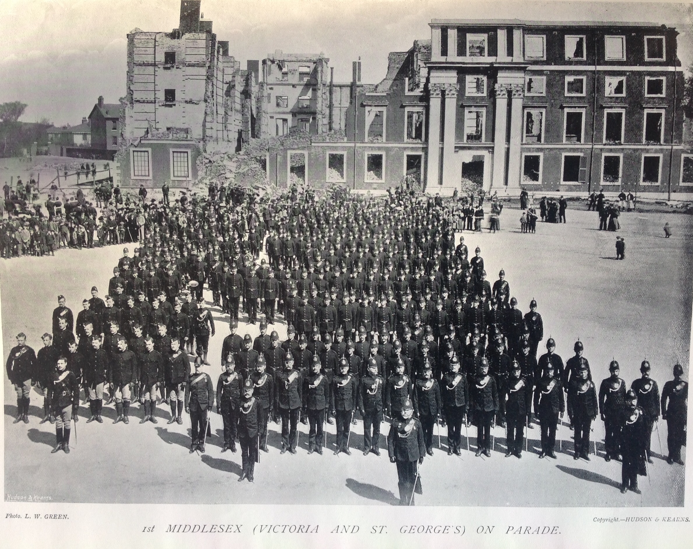 1st Middlesex Rifle Volunteer Corps, from the Navy and Army Illustrated, 1897